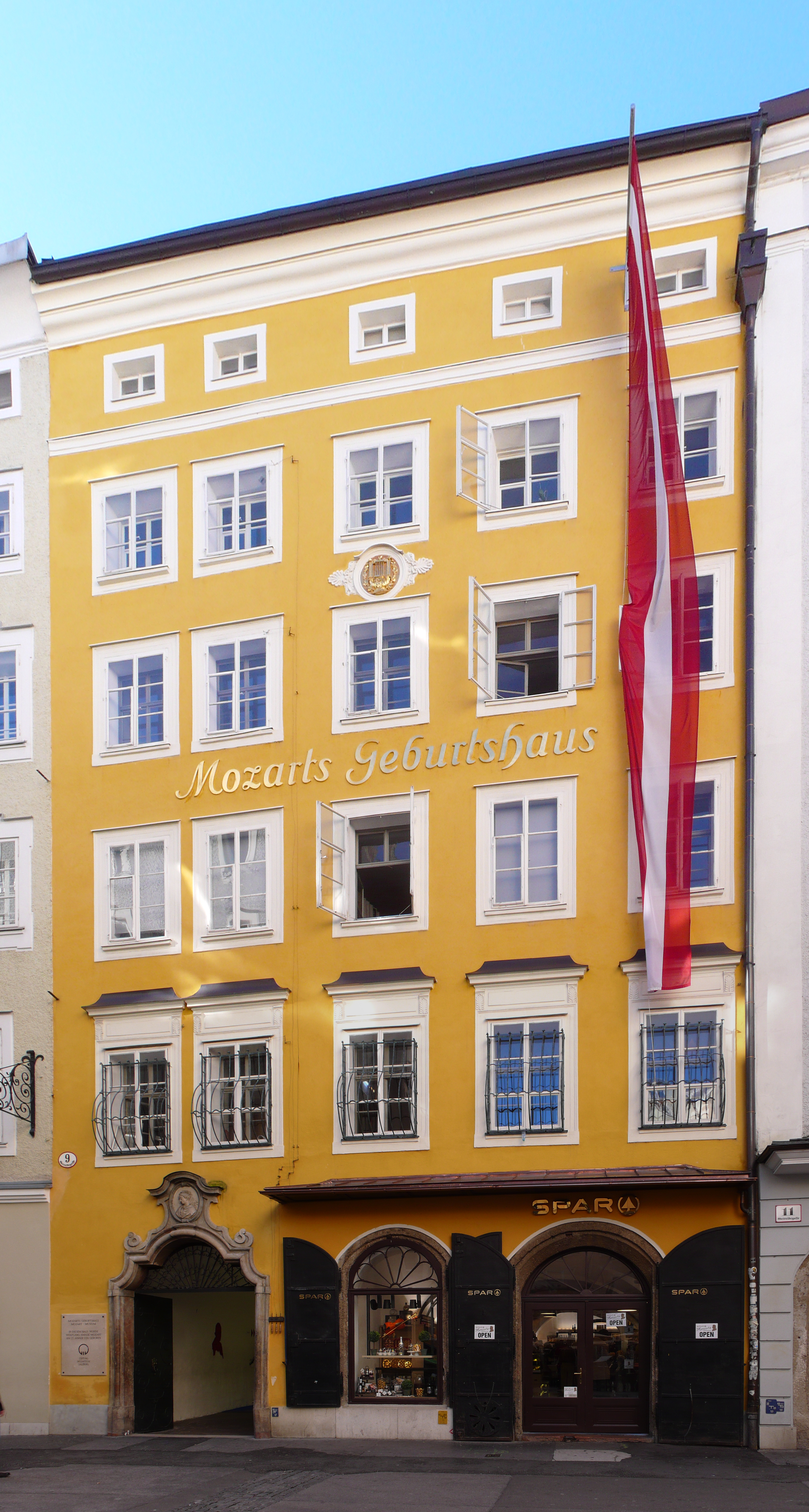 Mozart's birth place, Salzburg, Austria.